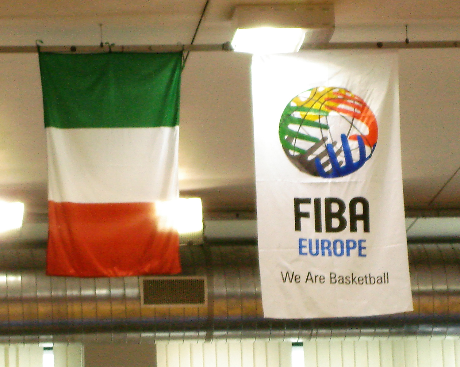 FIBA Europe banner and Italian flag at FIBA EuroBasketWomen 2007 in Chieti